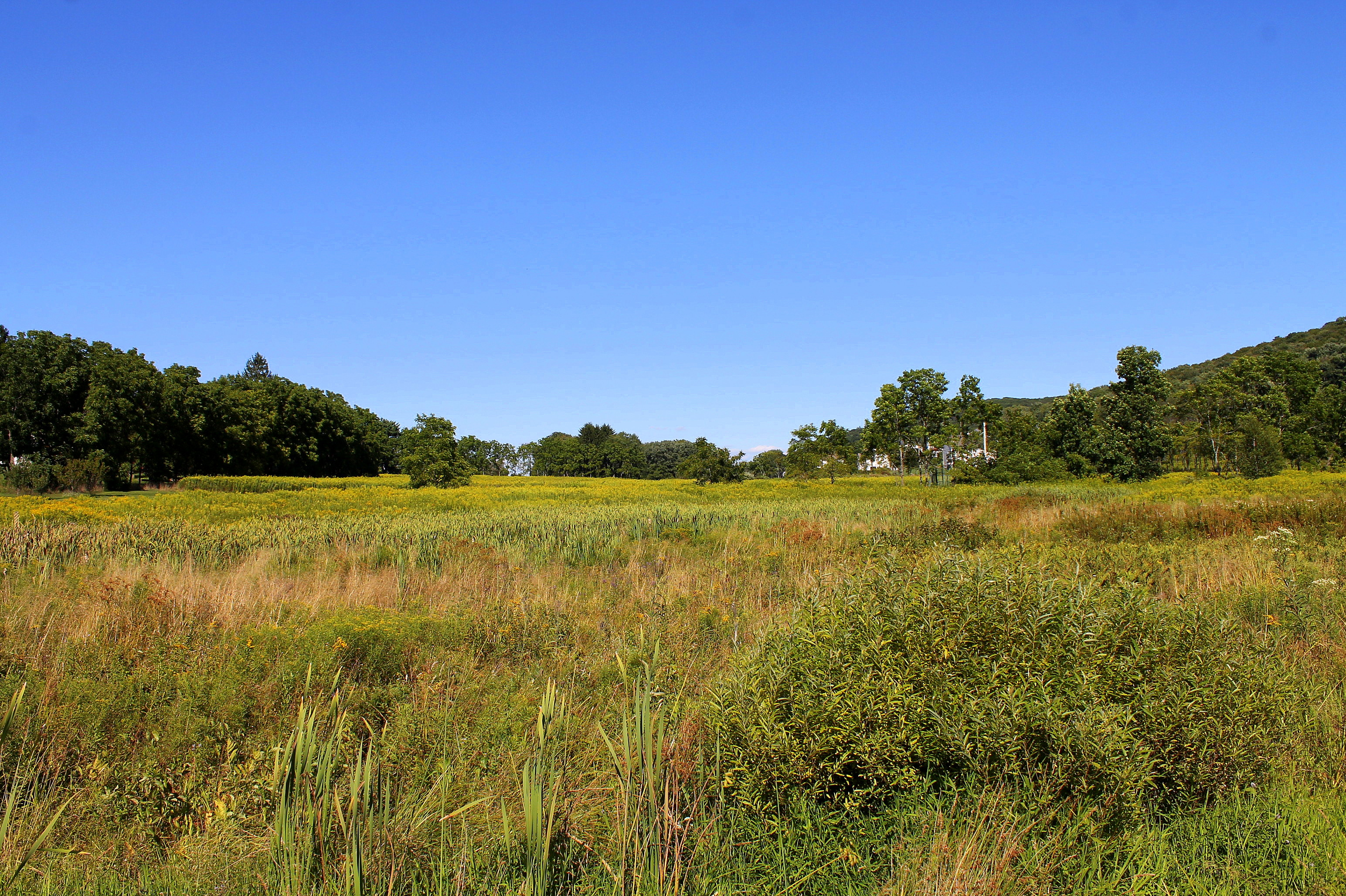 Jackson Township, Luzerne County, Pennsylvania near Chase, looking east.